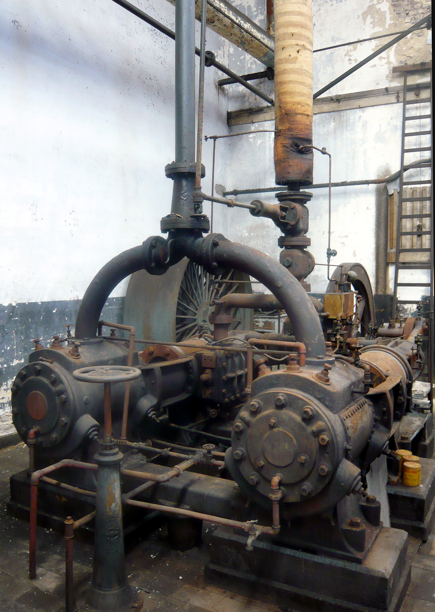 Steam engine, Verviers